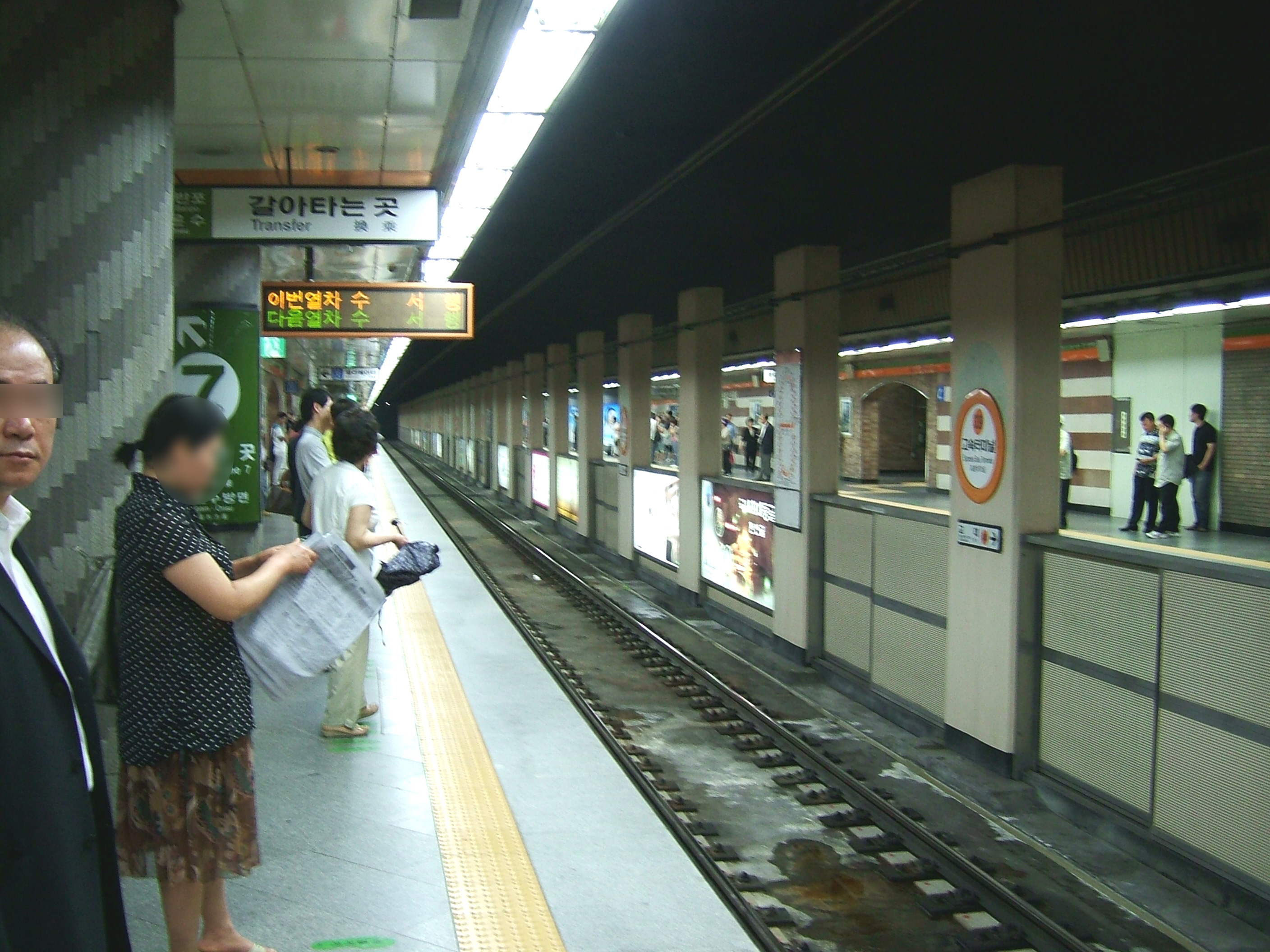 The platforms at Express Bus Terminal Station, Seoul Subway Line 3